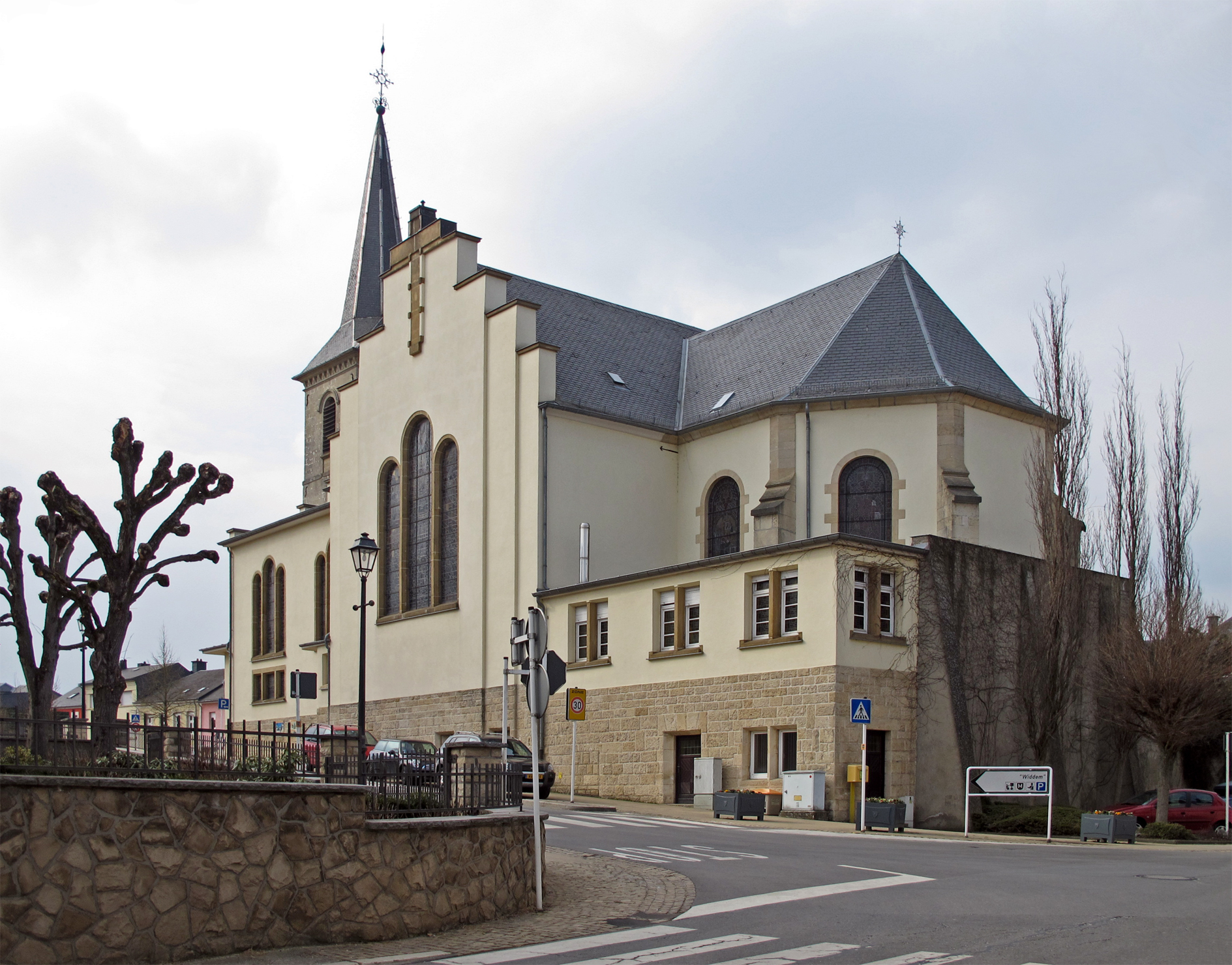 Church of Kayl, Luxembourg, rear view